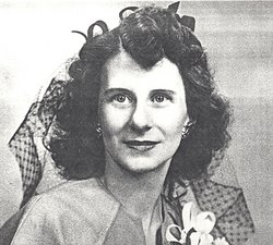 Dorothy Yost as a younger woman